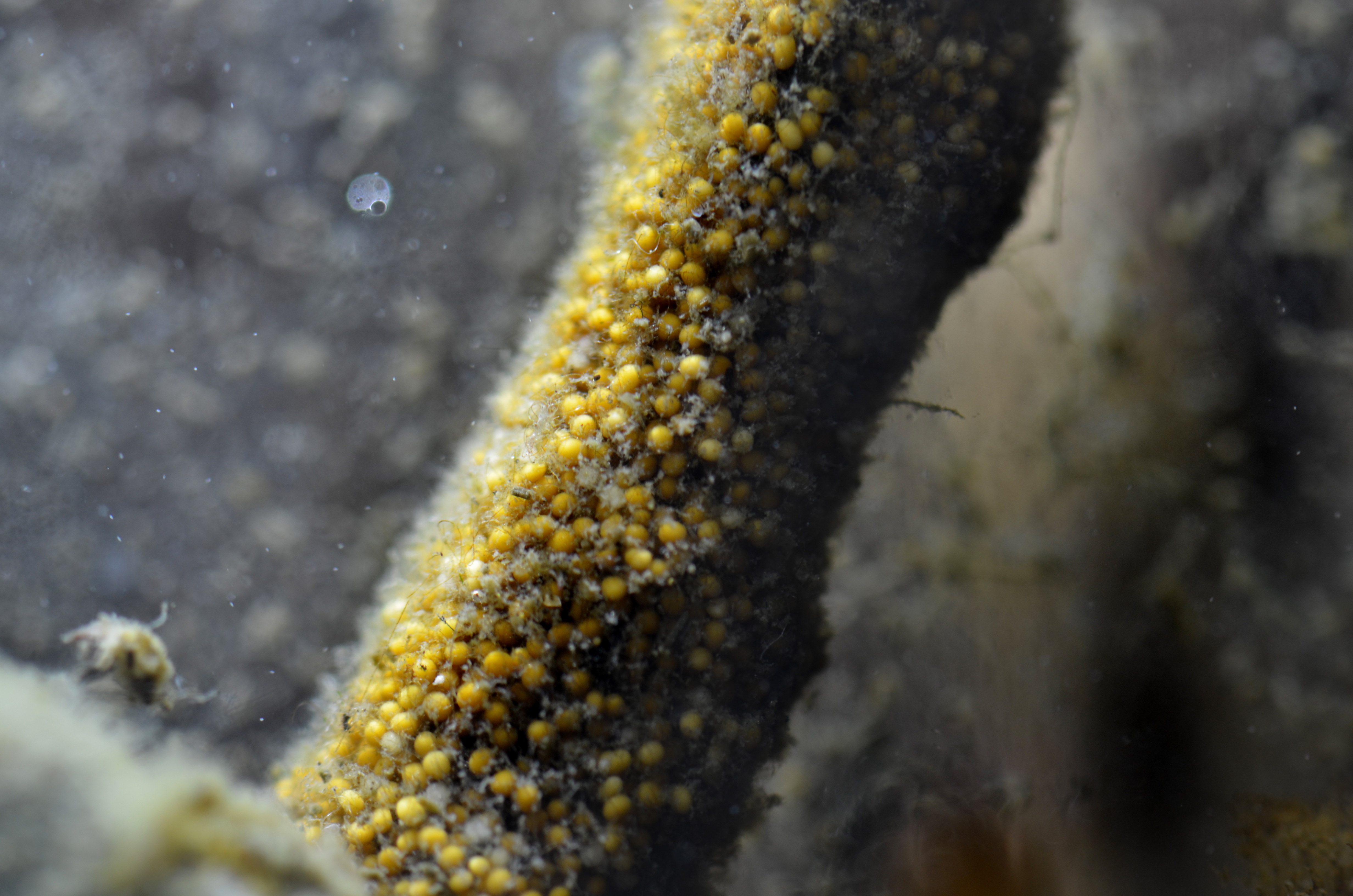 Gemmules of the freshwater sponge Spongilla lacustris (here in northern France) = resistant form of metabolic dormancy and appear in autumn.